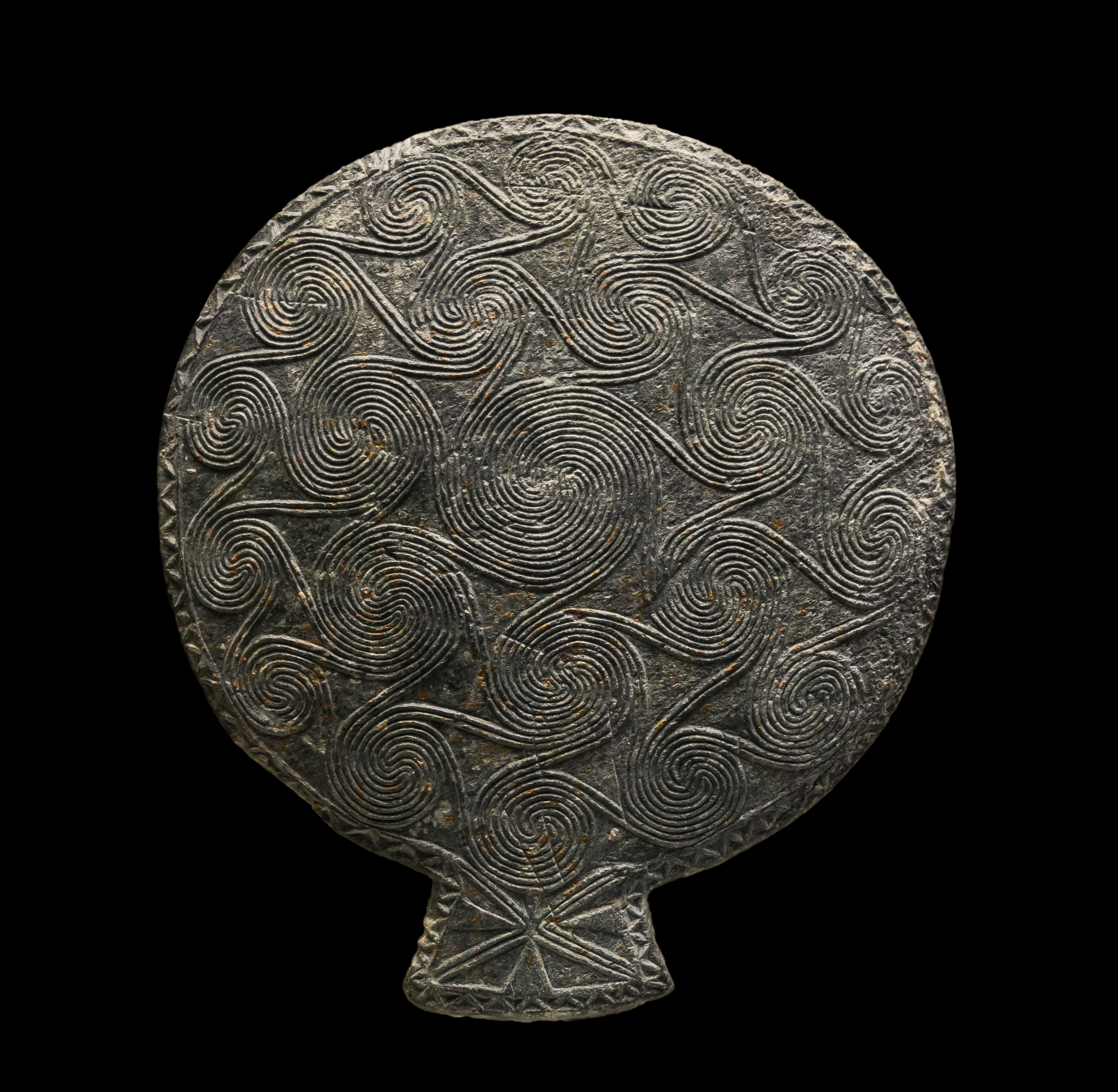 A so-called "frying pans", votive object, vessel of Chlorite schist. Probably from Naxos provenance. Early cycladic era, 3200-2300 BCE. N°20935